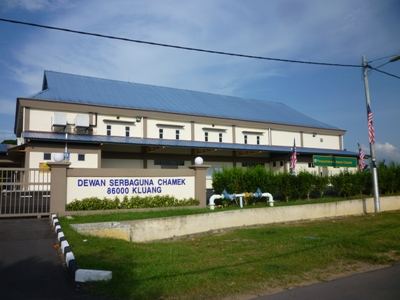 Chamek Multipurpose Hall, Kluang, Johor, MalaysiaBahasa Melayu: Dewan Serbaguna Chamek, Kluang, Johor, Malaysia